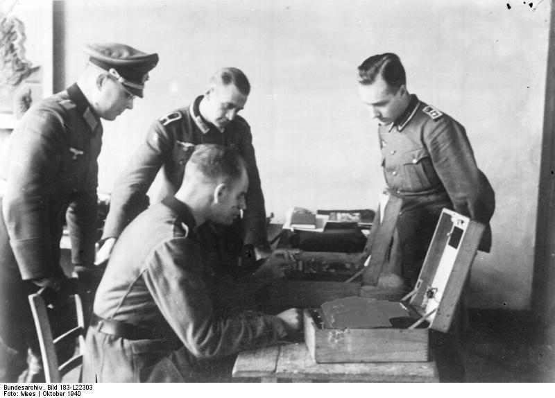 Translation of caption: War in the West: Highest precept for a radio operator: "Warning! The enemy is listening!" Each message is encrypted. Encryption requires care and strict monitoring.